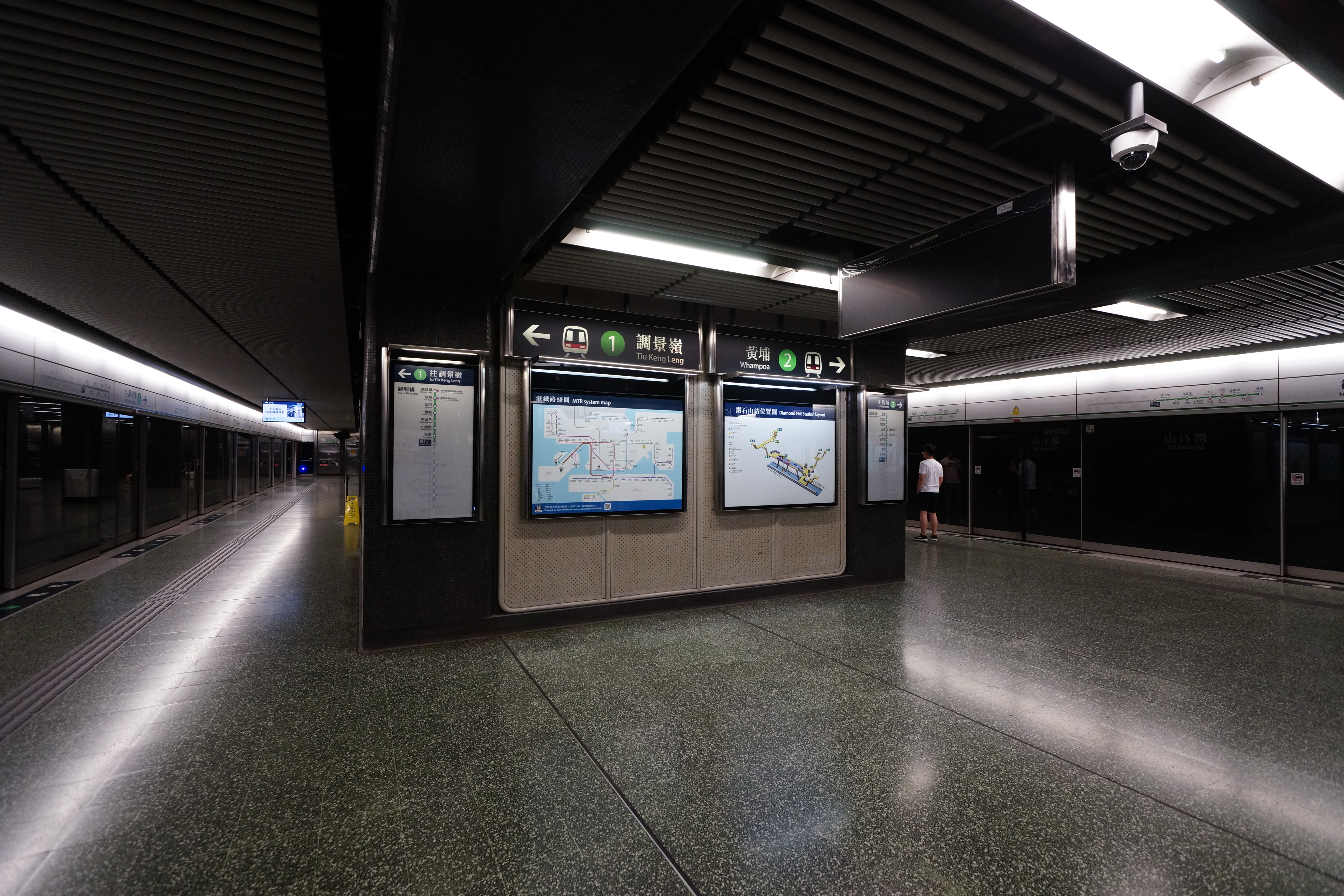 MTR Diamond Hill Station platform